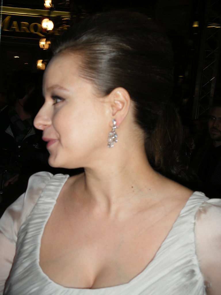 English actress Samantha Morton